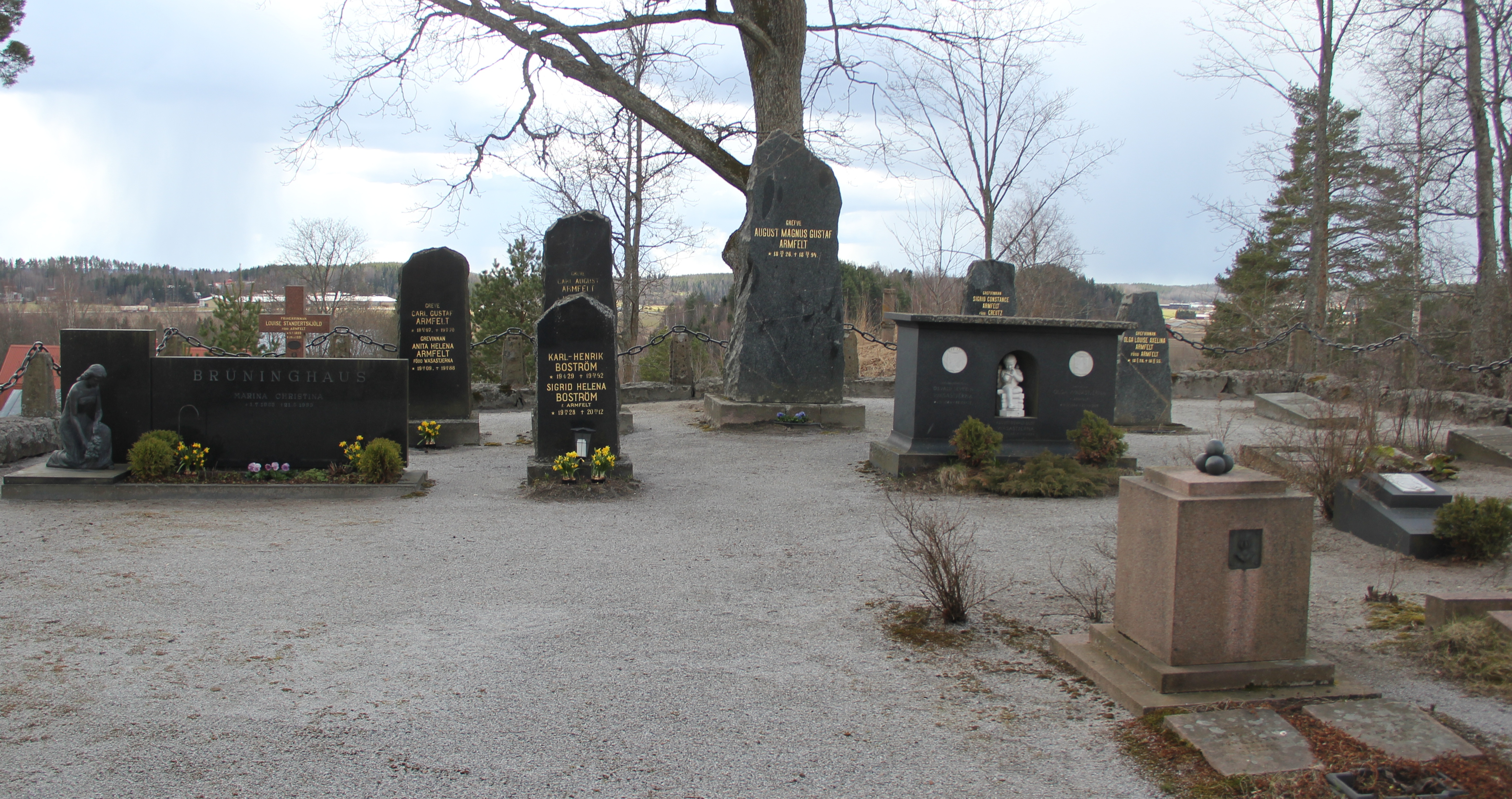 Old graves of the Viurila Estate on the Halikko graveyard.